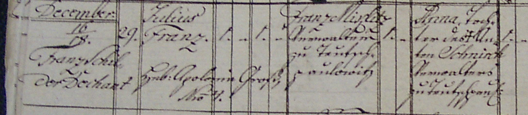 Sterbeeintrag in den Kirchenbuchduplikaten des Ortes Deutsch Paulowitz, angefertigt für das Olmützer Bistum, Jahr 1821